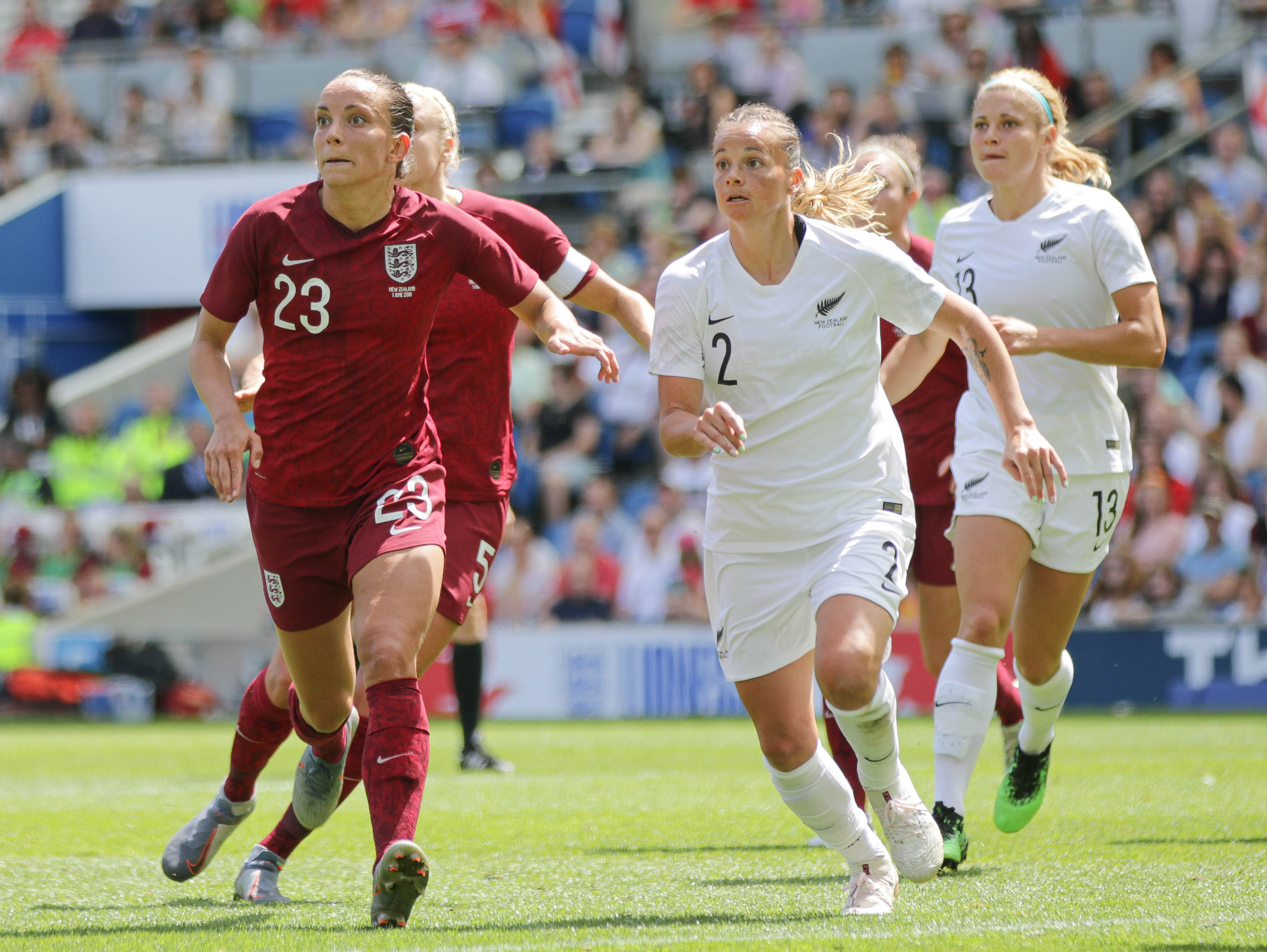 England Women 0 New Zealand Women 1 01 06 2019-678.jpg